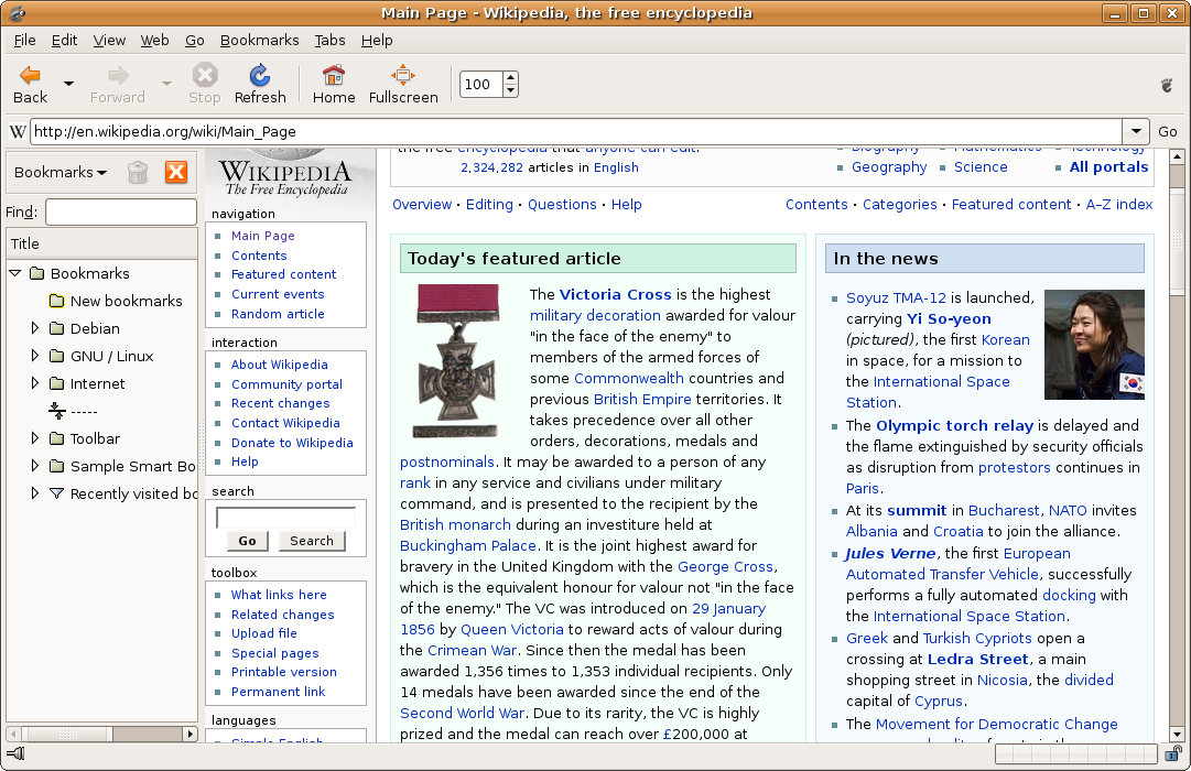 Screenshot of the web browser Galeon 2.0.4 on ubuntu.